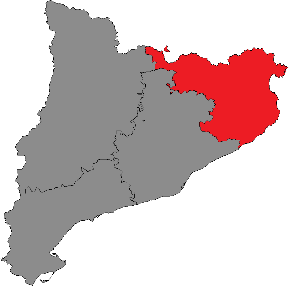 Parliament of Catalonia district of Girona.